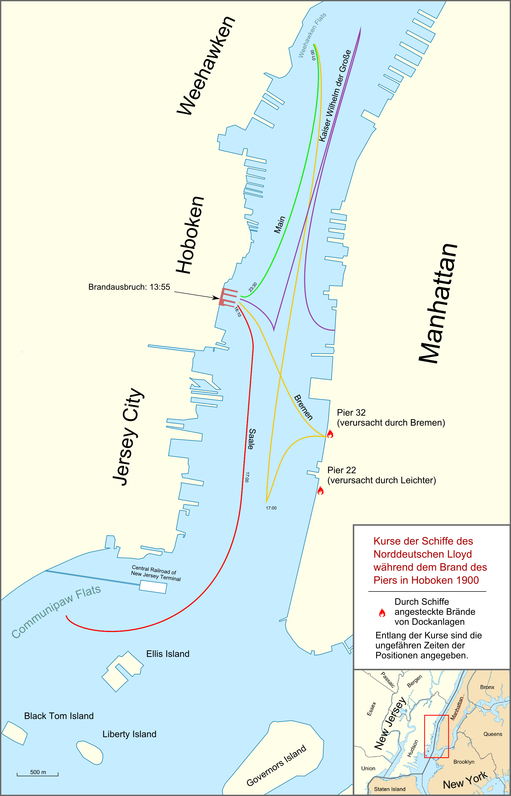 Map of the en:1900 Hoboken Docks Fire showing the tracks of the North German Lloyd ships during the incident.